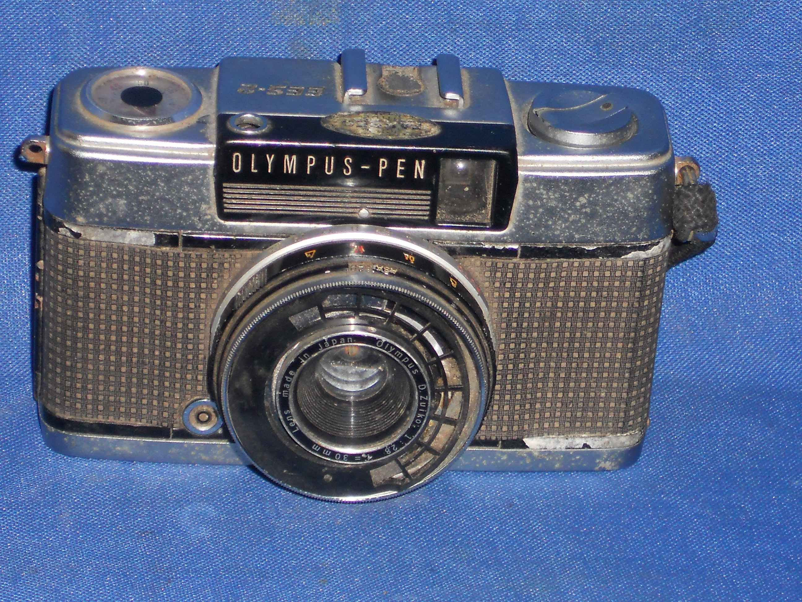 Olympus_pen_camera